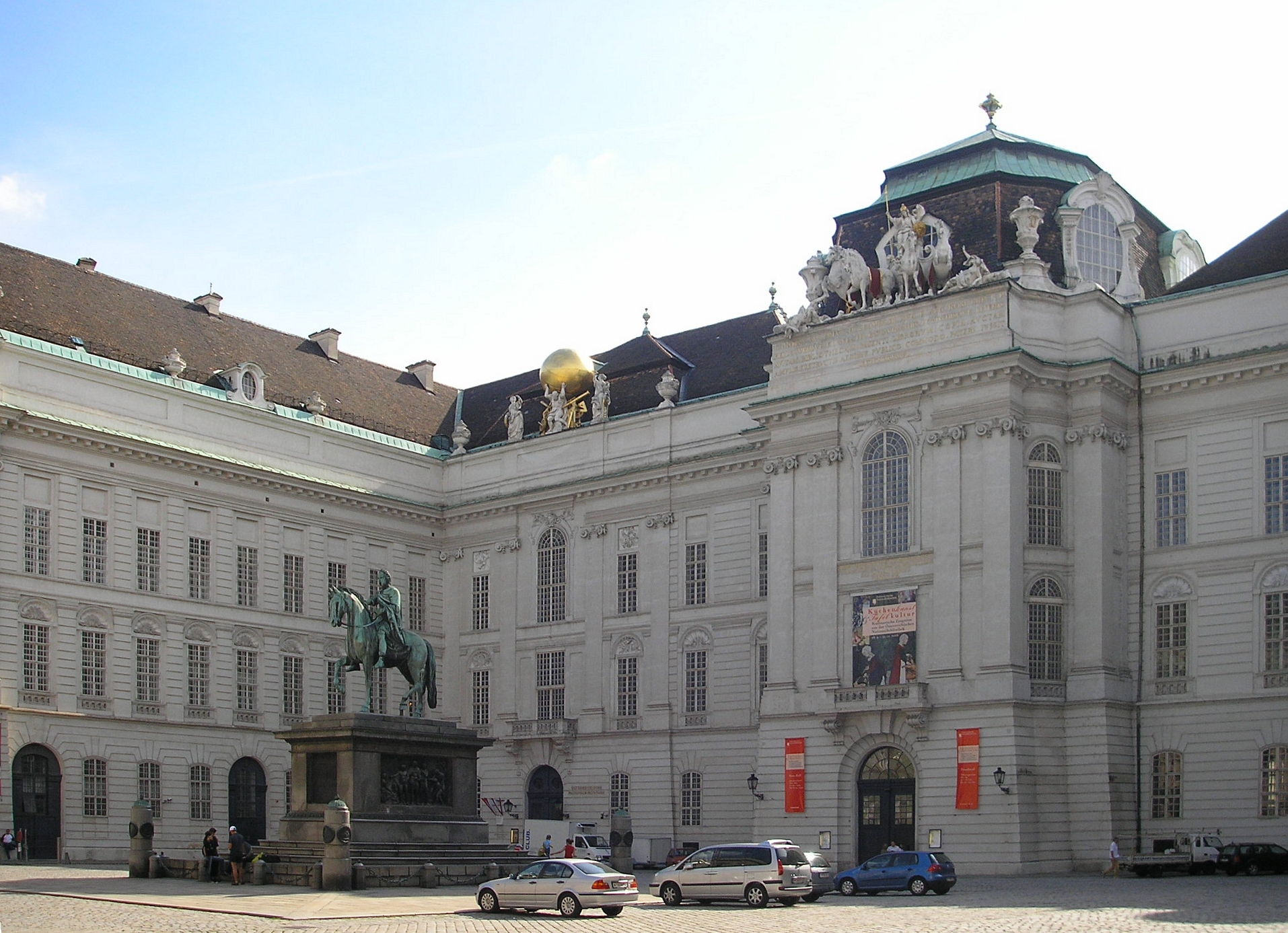 Image of the Österreichische Nationalbibliothek wing of the Hofburg Imperial Palace in Vienna, facing Josefsplatz.